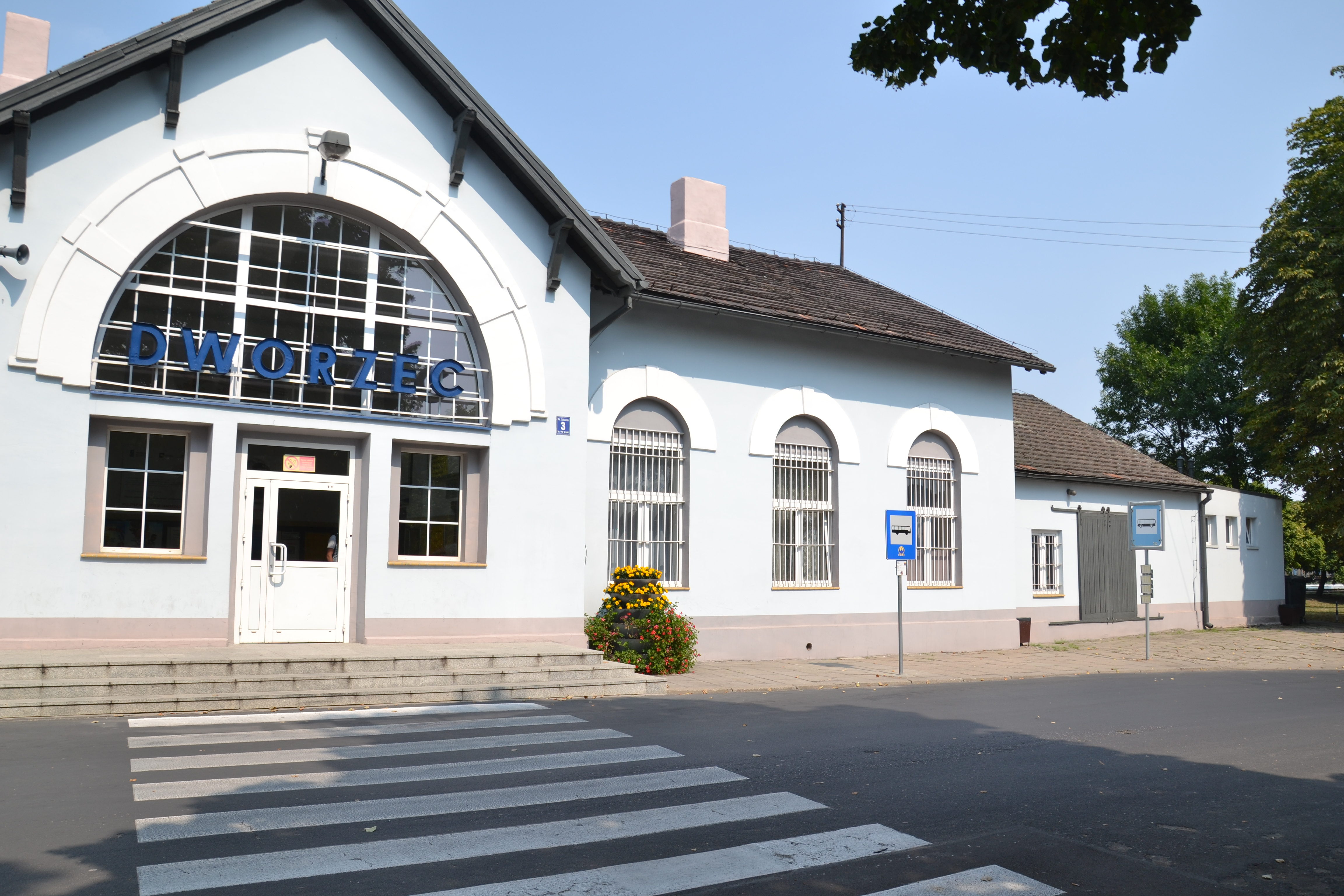 Widok dworca Zduńska Wola od strony miasta This photo was taken during Railway Wikiexpedition 2015 set up by Wikimedia Polska Association in cooperation with Fundacja Grupy PKP. You can see all photographs in category Wikiekspedycja kolejowa 2015.